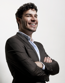 Matt Suiche